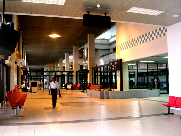 Shah Amanat International Airport